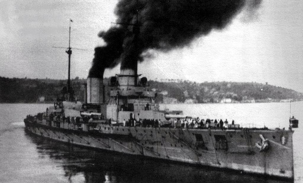 The Ottoman battlecruiser Yavuz Sultan Selim after a sortie to the Black Sea. First half of 1915.